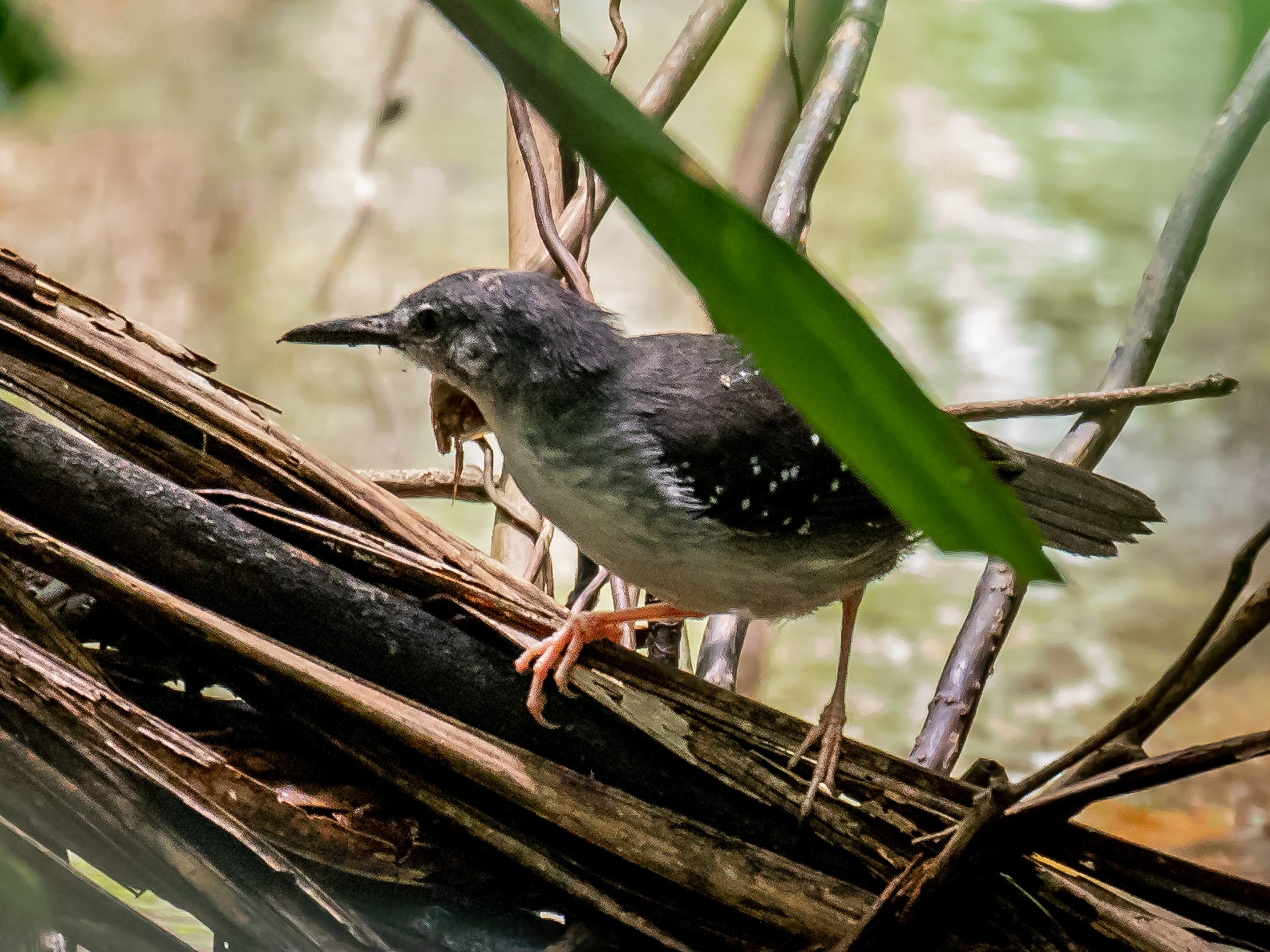 Silvered antbird (male), Manacapuru, Amazonas, Brazil